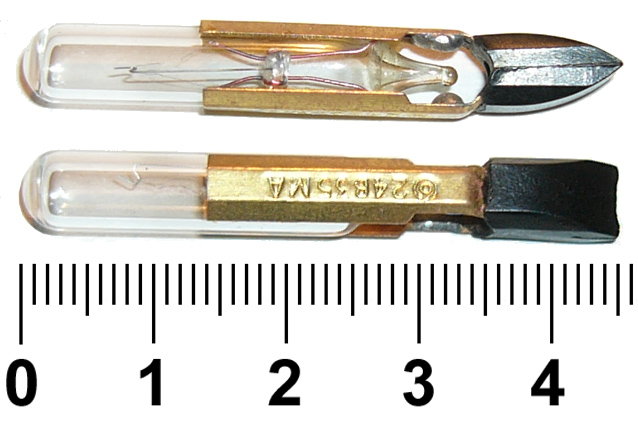 Russian switchboard lamp KM 24-35 (24V 35mA). Incandescent - telephone slide based / miniature light bulb lamp